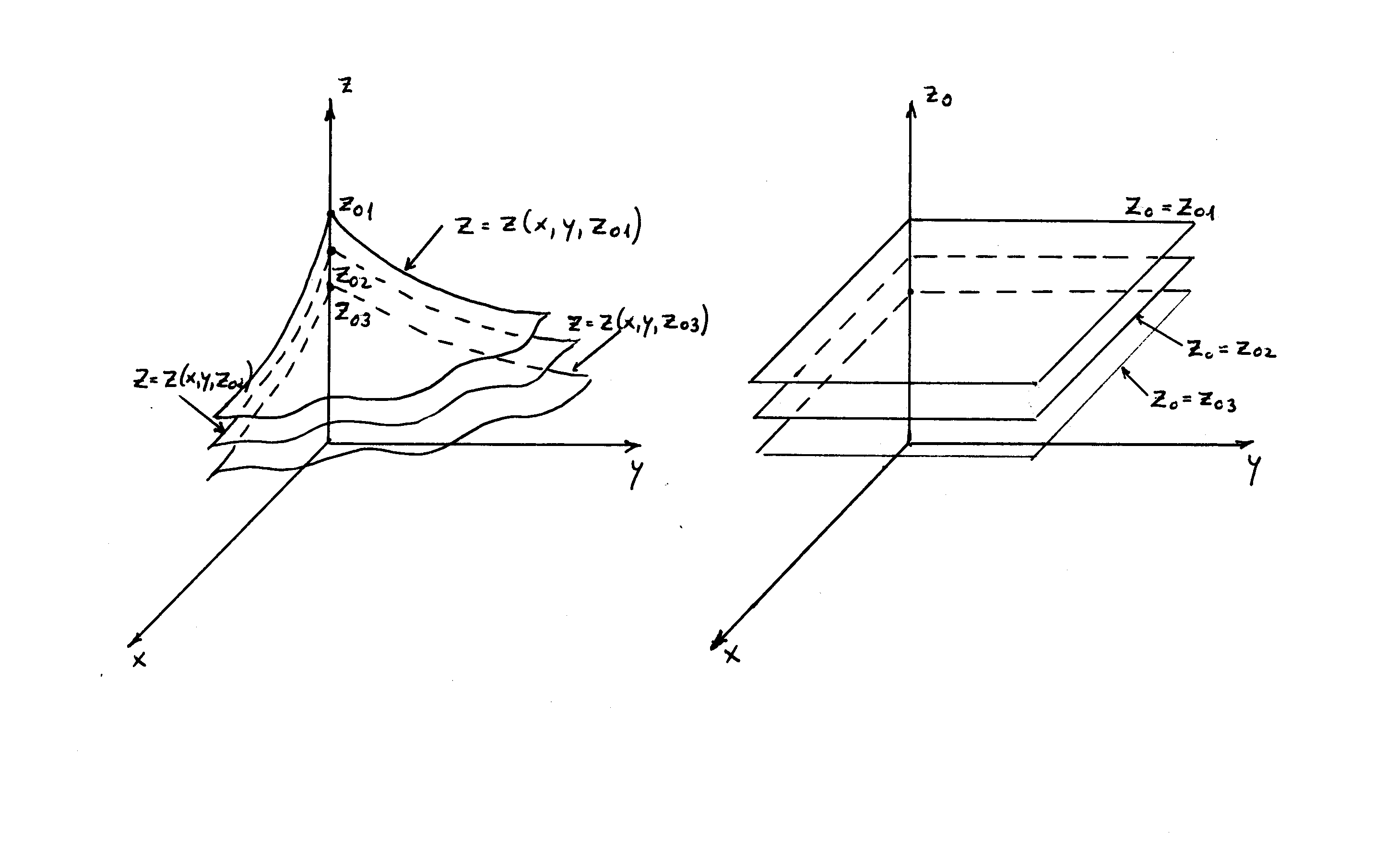 Effect of integration on differential forms